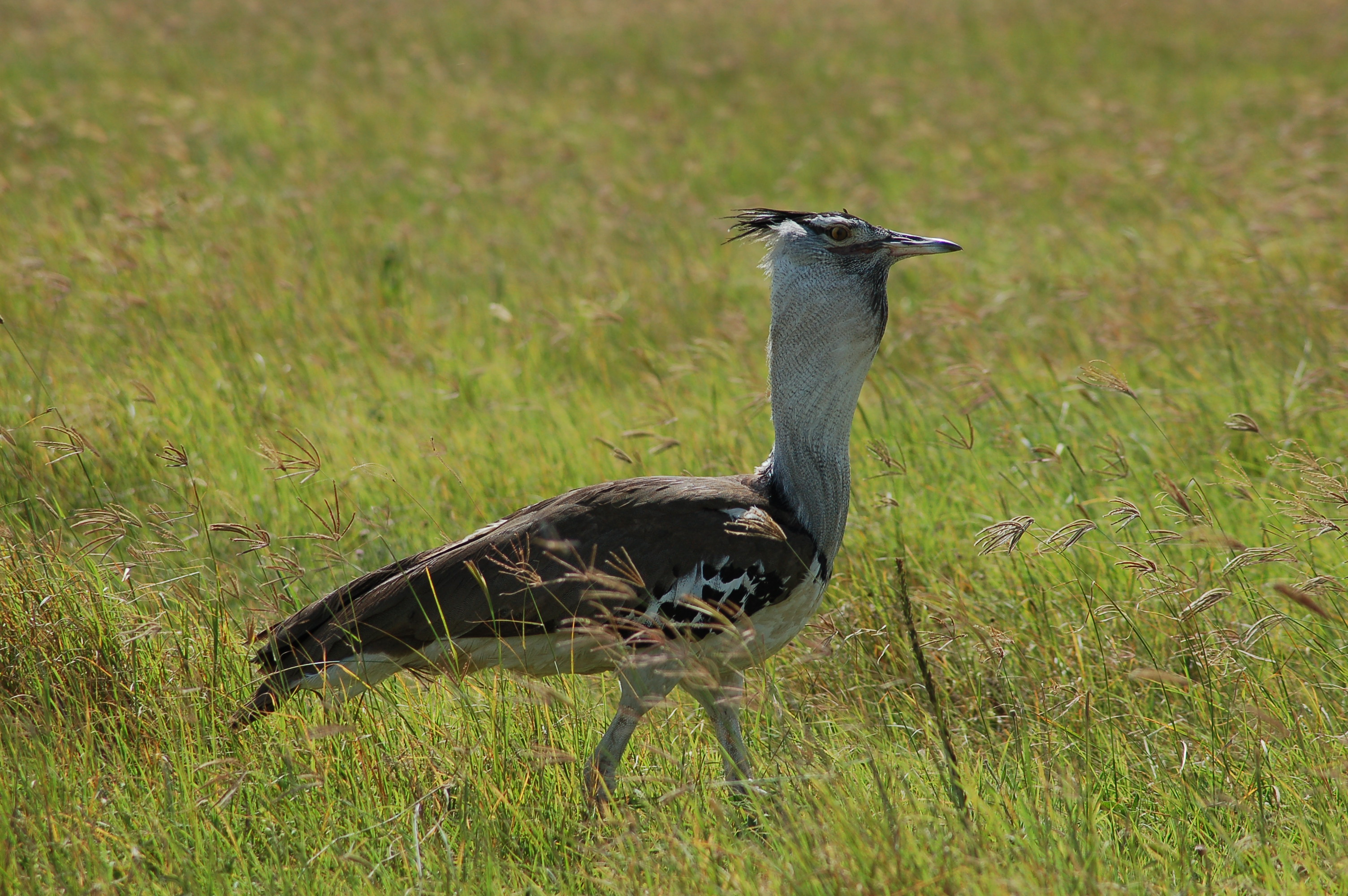 A Kori Bustard in Ngorongoro Crater, Tanzania.